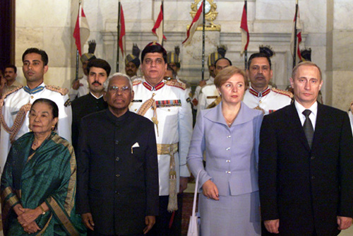 PRESIDENTIAL PALACE, DELHI. Official lunch given by President of India Kocheril Raman Narayanan.